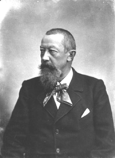 Hugo Licht (1841–1923), German architect, town government building surveyor in Leipzig